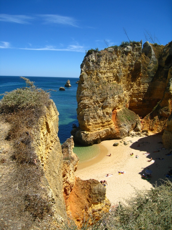 One of the beaches in Lagos, Algavre